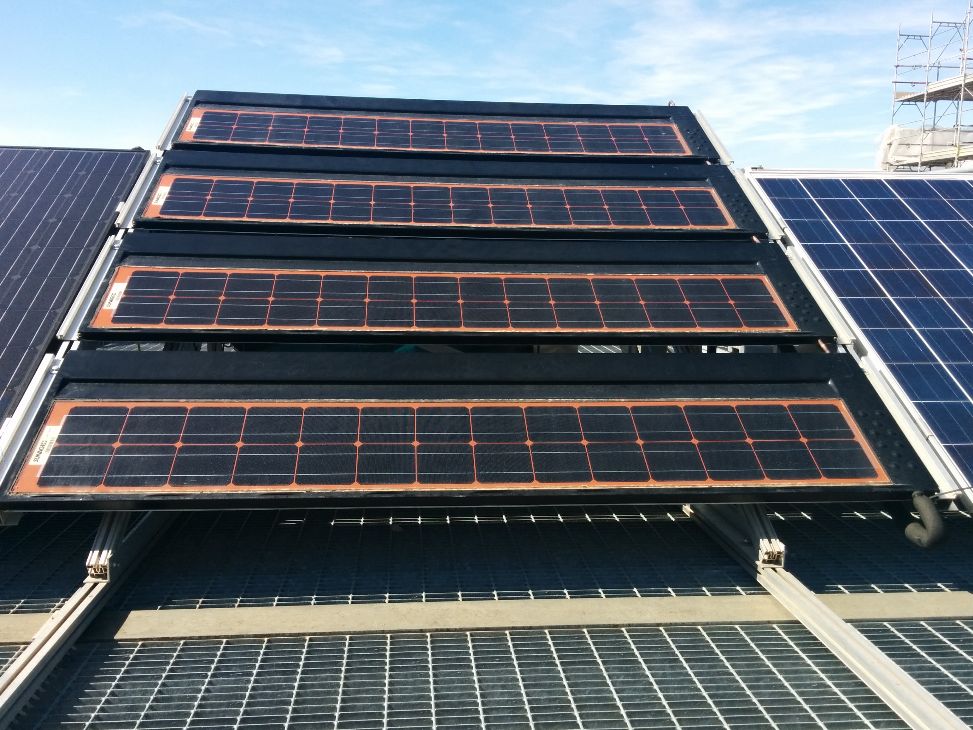 Photovoltaic-themal solar panels for a solar-assisted heat pump. Experimental installation at Department of Energy of Politecnico of Milan